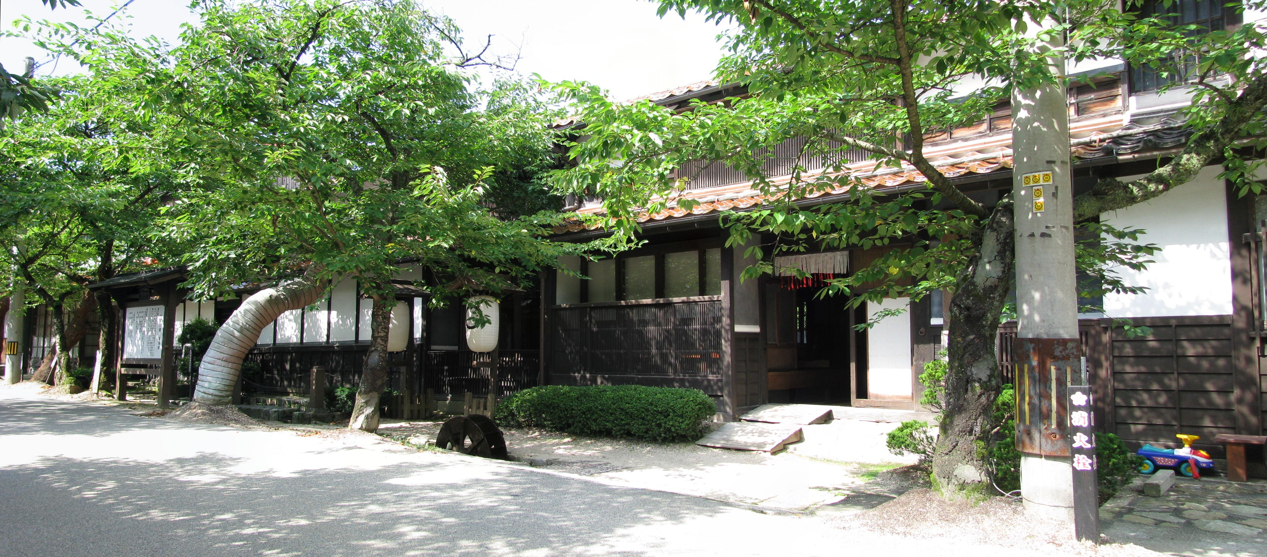 The Waki-honjin of Shinjō-juku at Izumo-kaido. This place is Shinjō, Okayama, Japan.